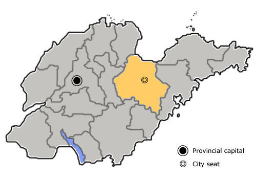 The prefecture-level city of Weifang is highlighted on this map of Shandong province, People's Republic of China.